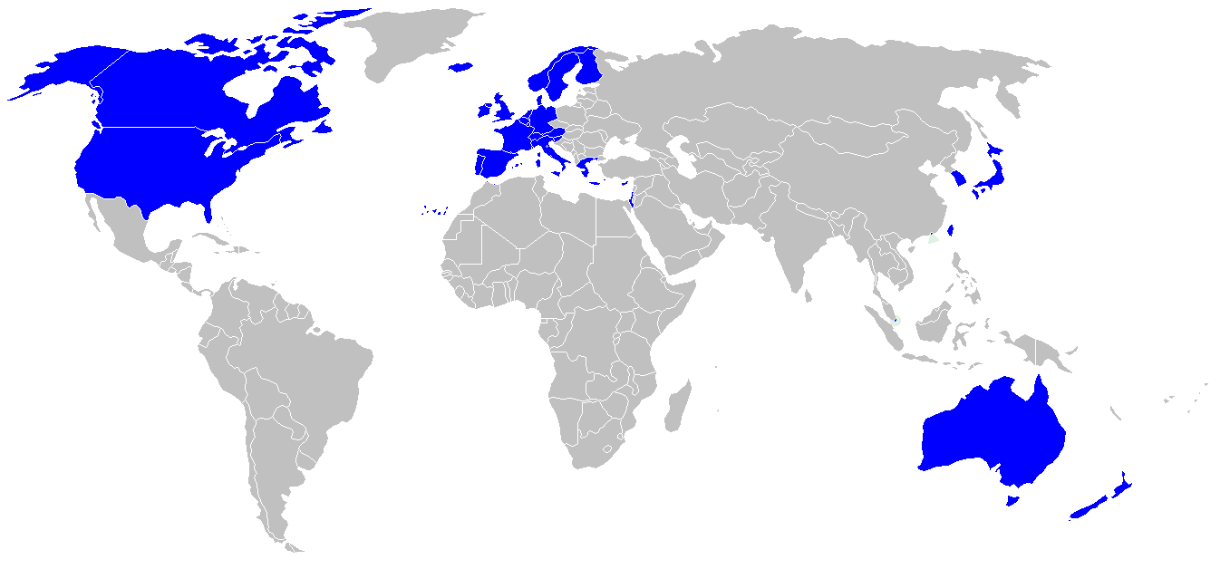 Map of the first world in modern usage